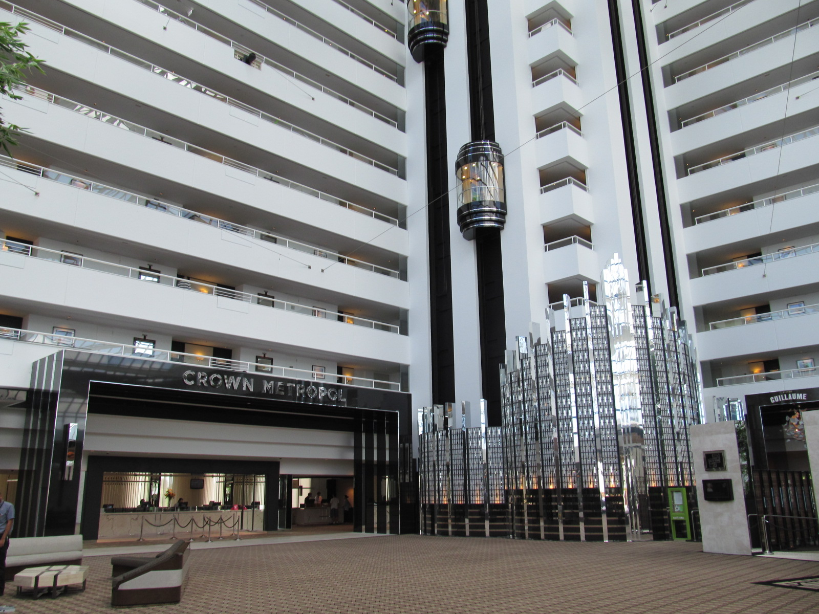 Foyer and lifts at Crown Metropol Perth, Burswood, Western Australia